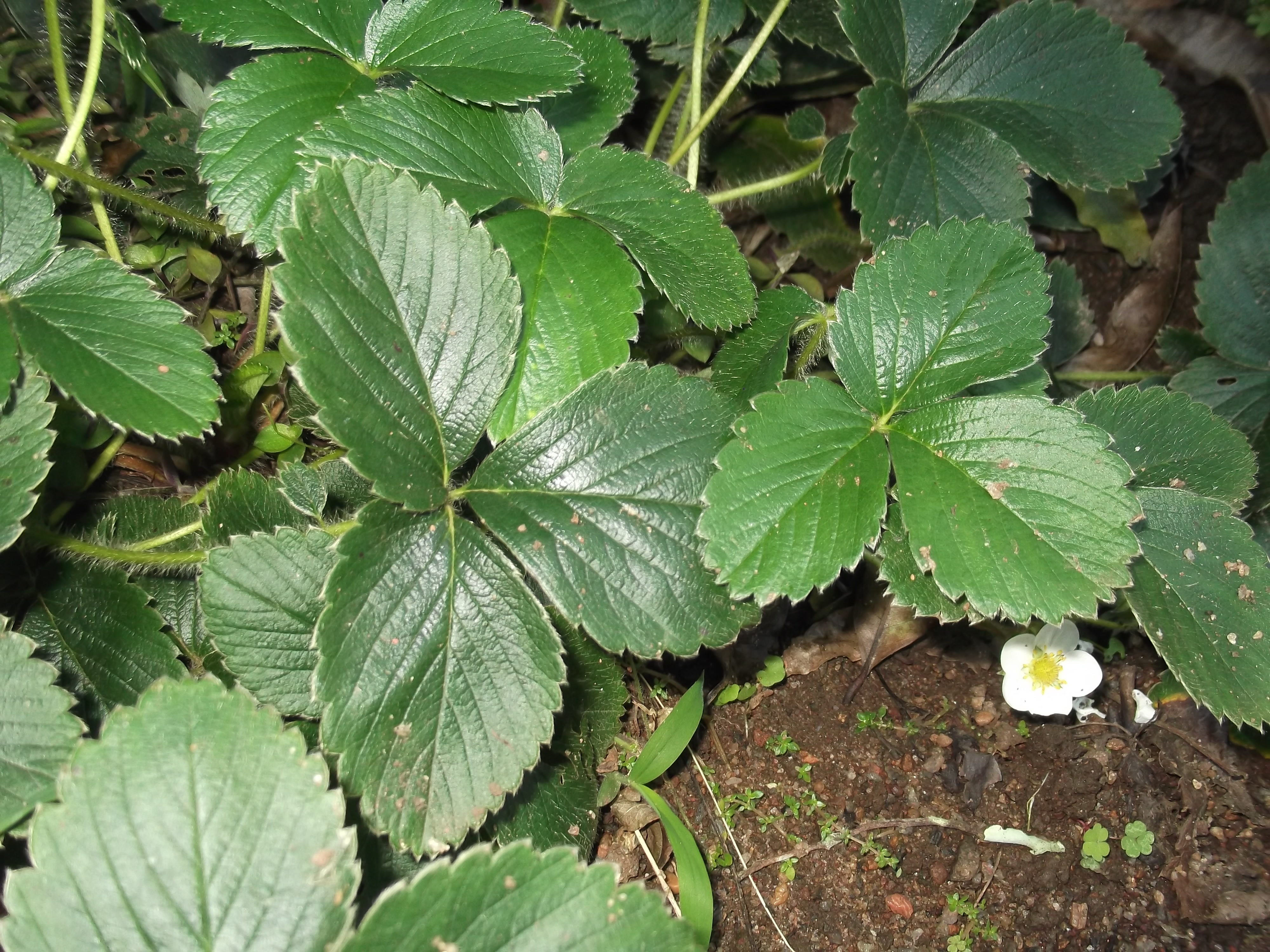 Strawberry-runner,ground cover,white flowers,friuts red,edible.